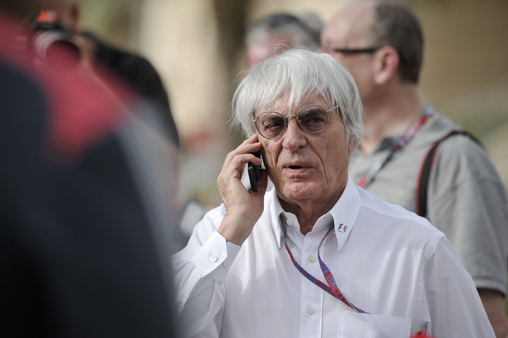 Bernie Ecclestone at the 2012 Bahrain Grand Prix.